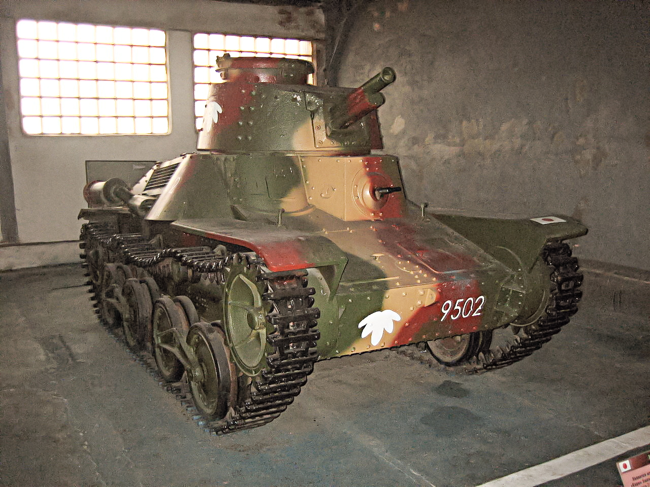 Japan light infantry tank Type 4 Ke-Nu, displayed in Kubinka Tank Museum. Photo taken on December 9, 2006. Source: Photo by me, User:Saiga20K.